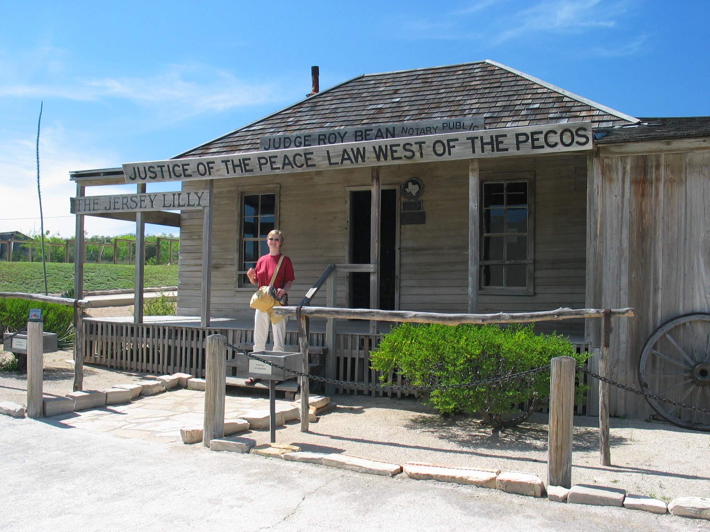 A tourist visits the preserved Jersey Lilly saloon, courtroom of Judge Roy Bean.